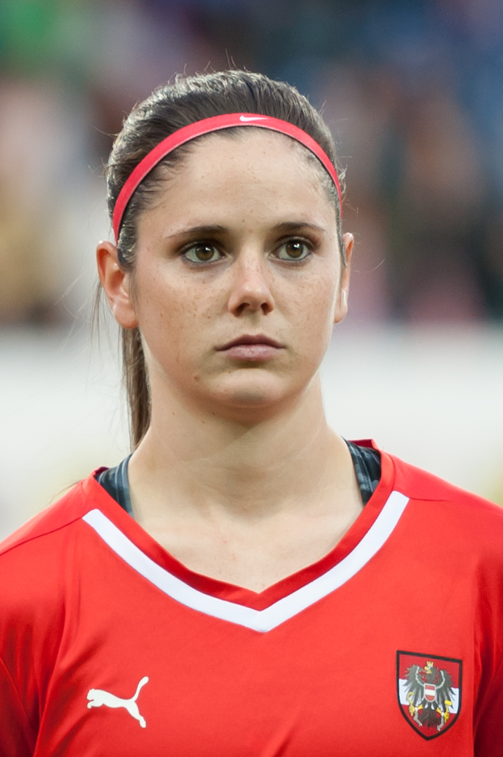 Women's Euro Qualification Austria vs. Wales, 2015-09-22, St. Pölten, Lower Austria